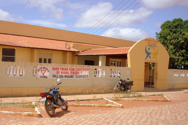 Mixed health unit of Serra do Mel